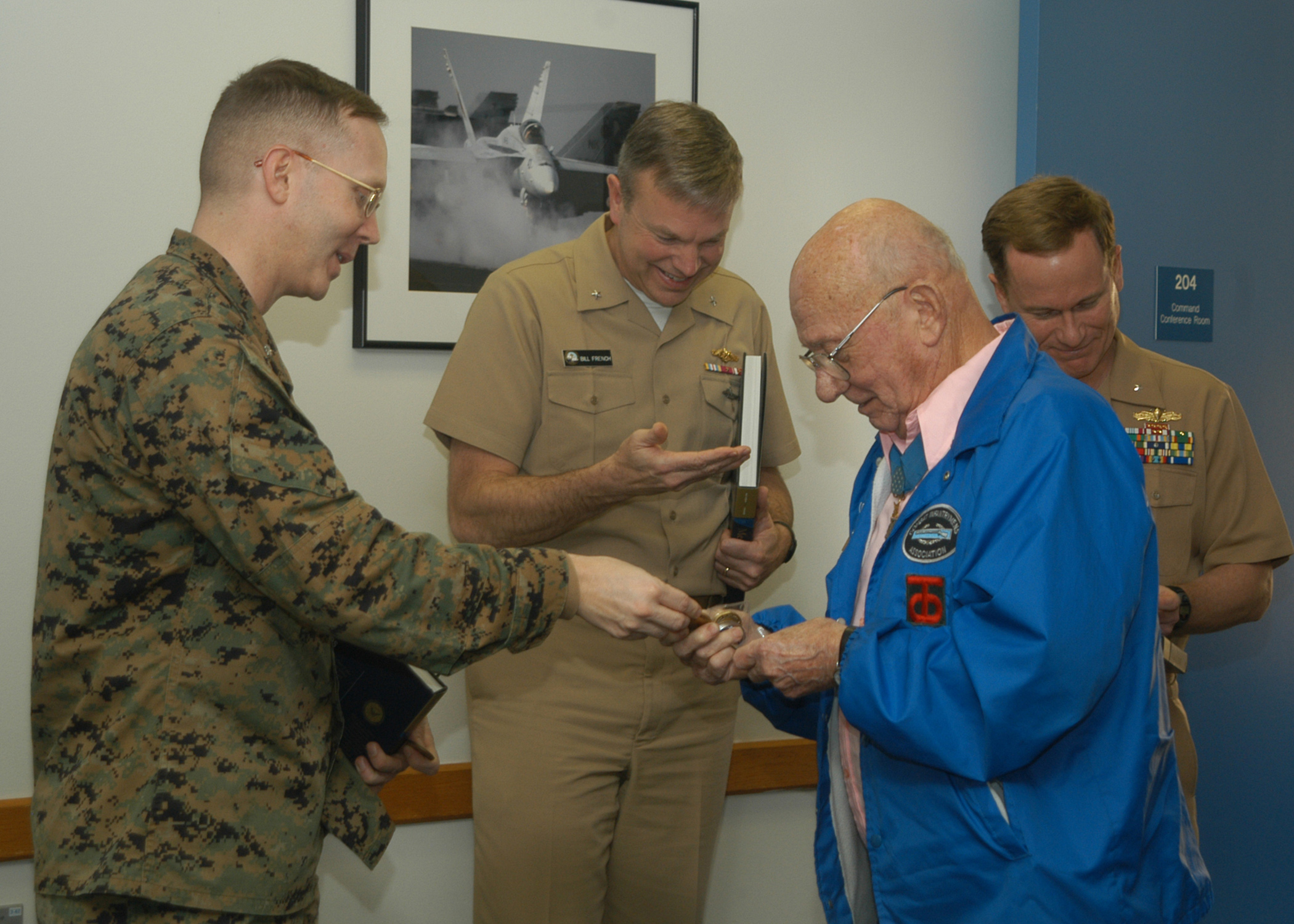 Keyport, Wash. (Jan. 11, 2007) - Lt. Col. James Dillon, commanding officer, Marine Corps Security Force Company (MCSFCo) Bangor, gives Bud Hawk, WWII Medal of Honor recipient, a MCSFCo Bangor command coin at Naval Base Kitsap Bangor. Hawk met with Navy, Marine Corps, and Coastguard leaders to present them with the new version of the Medal of Honor Society Book. U.S. Navy photo by Mass Communication Specialist 3rd Class Angela Grube (RELEASED)